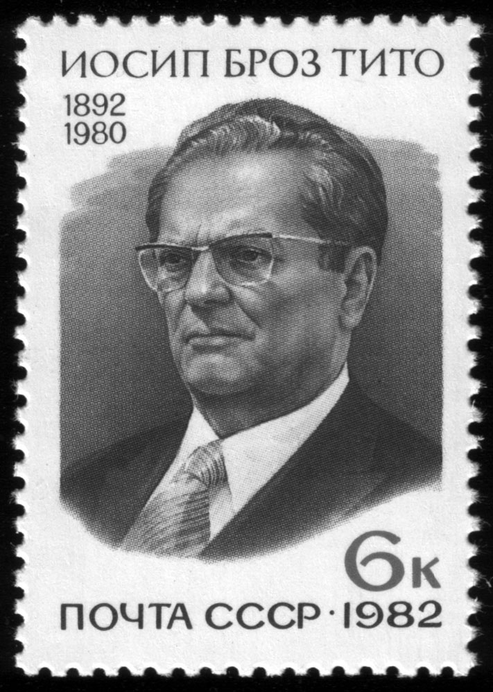 USSR stamp, 90th Birth Anniversary of Iosif Broz Tito. Date of issue: 25th February 1982. Designer: V. Nikitin. Michel catalogue number: 5151. 6 K. multicoloured. Portrait of Yugoslavian president Iosif Broz Tito (1892-1980).